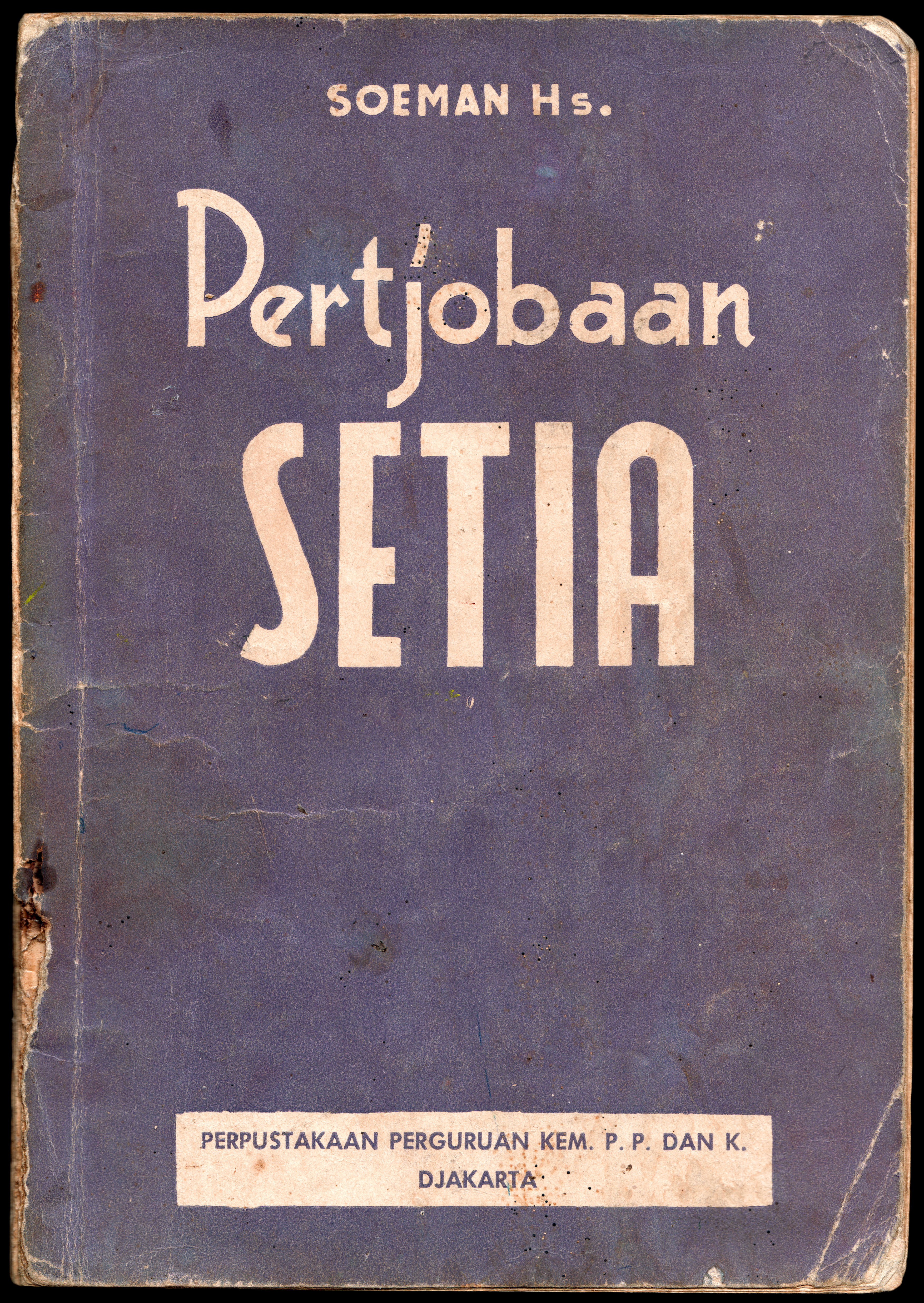 Pertjobaan Setia (2nd edition), cover